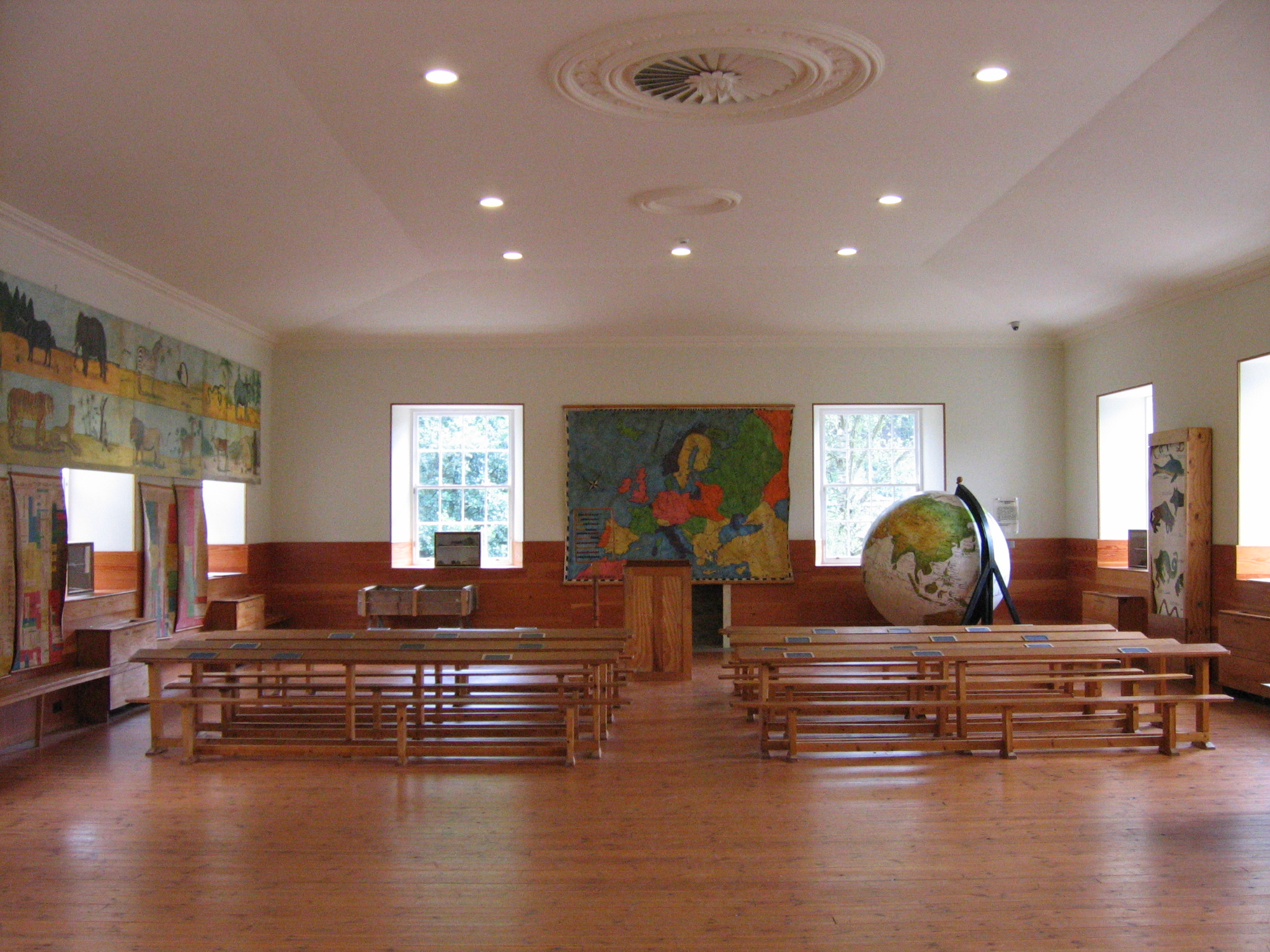 New Lanark school class museum